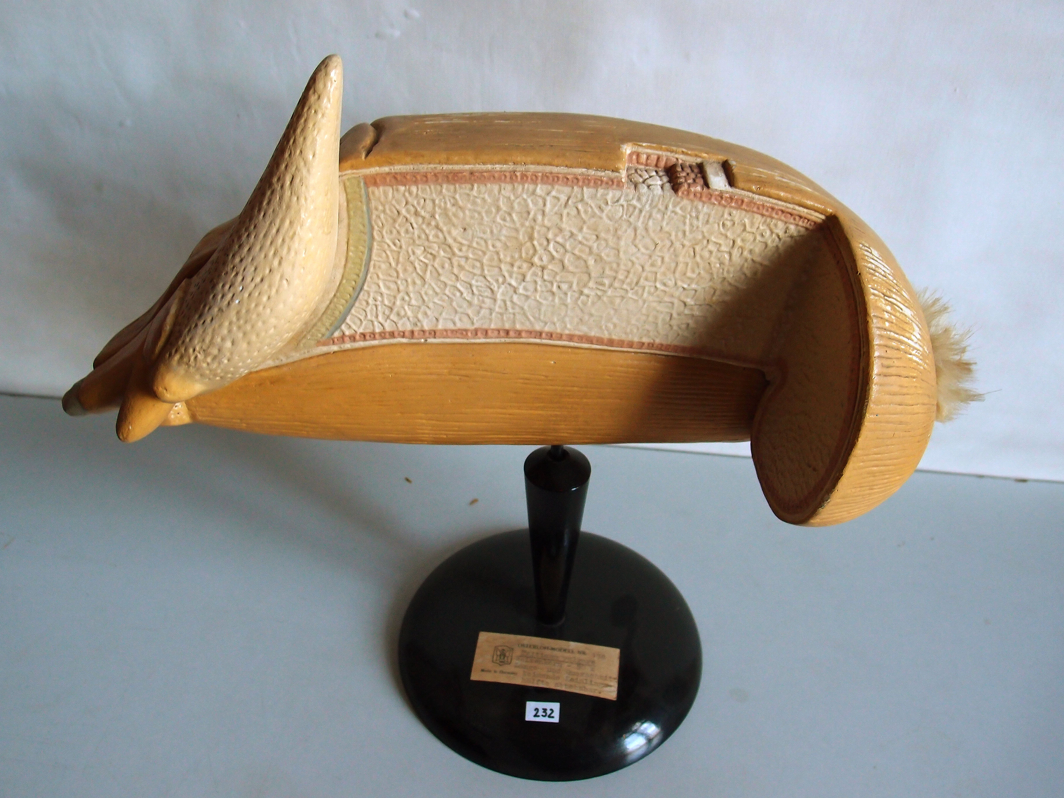 Model from the collection of the Botanical Museum in Greifswald, Germany. . see also for more information on the models